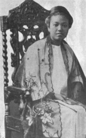 Dr. Ma Saw Sa, from a 1922 publication. Page 90.